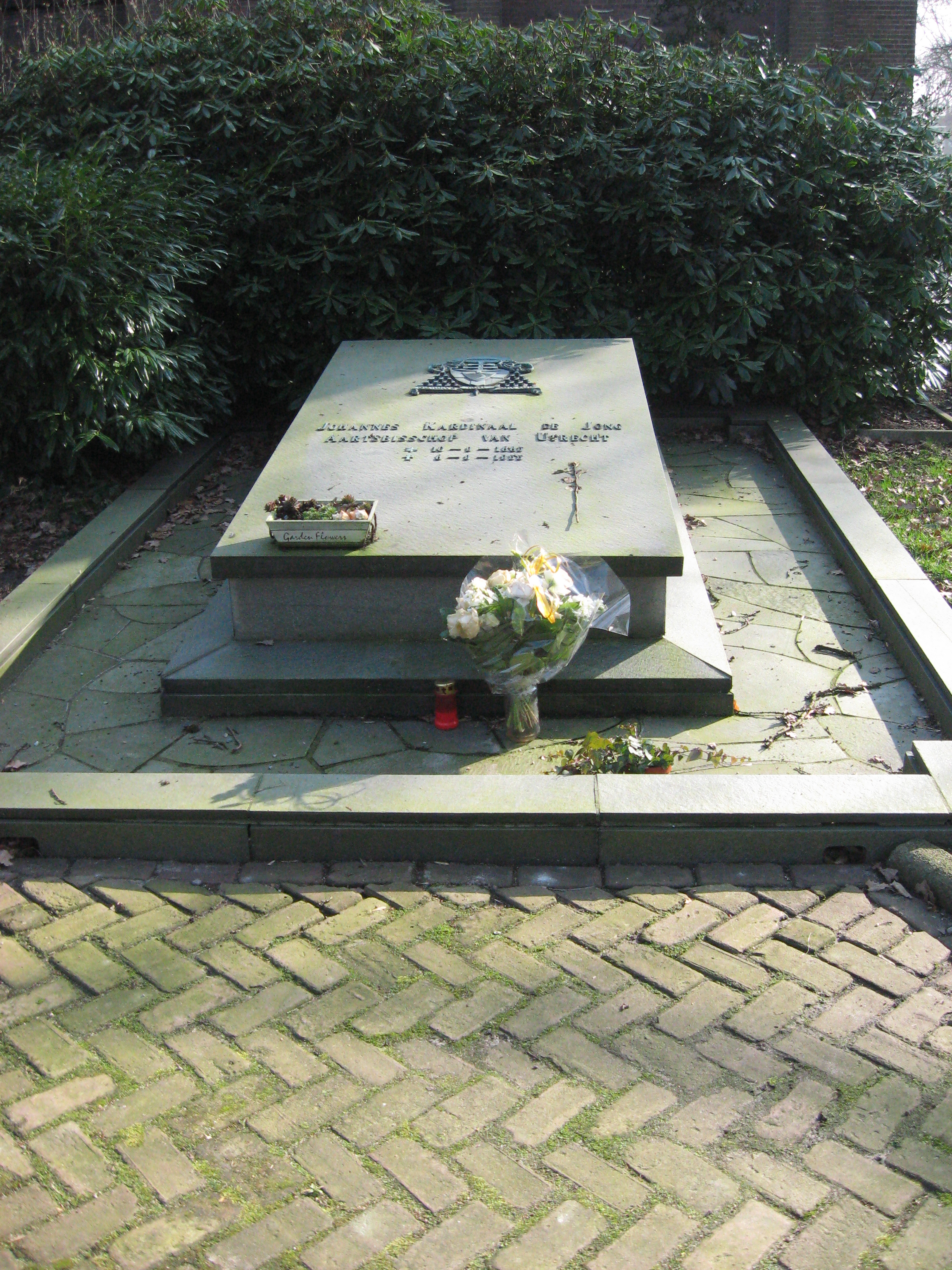 The grave of cardinal Johannes de Jong, archbishop of Utrecht